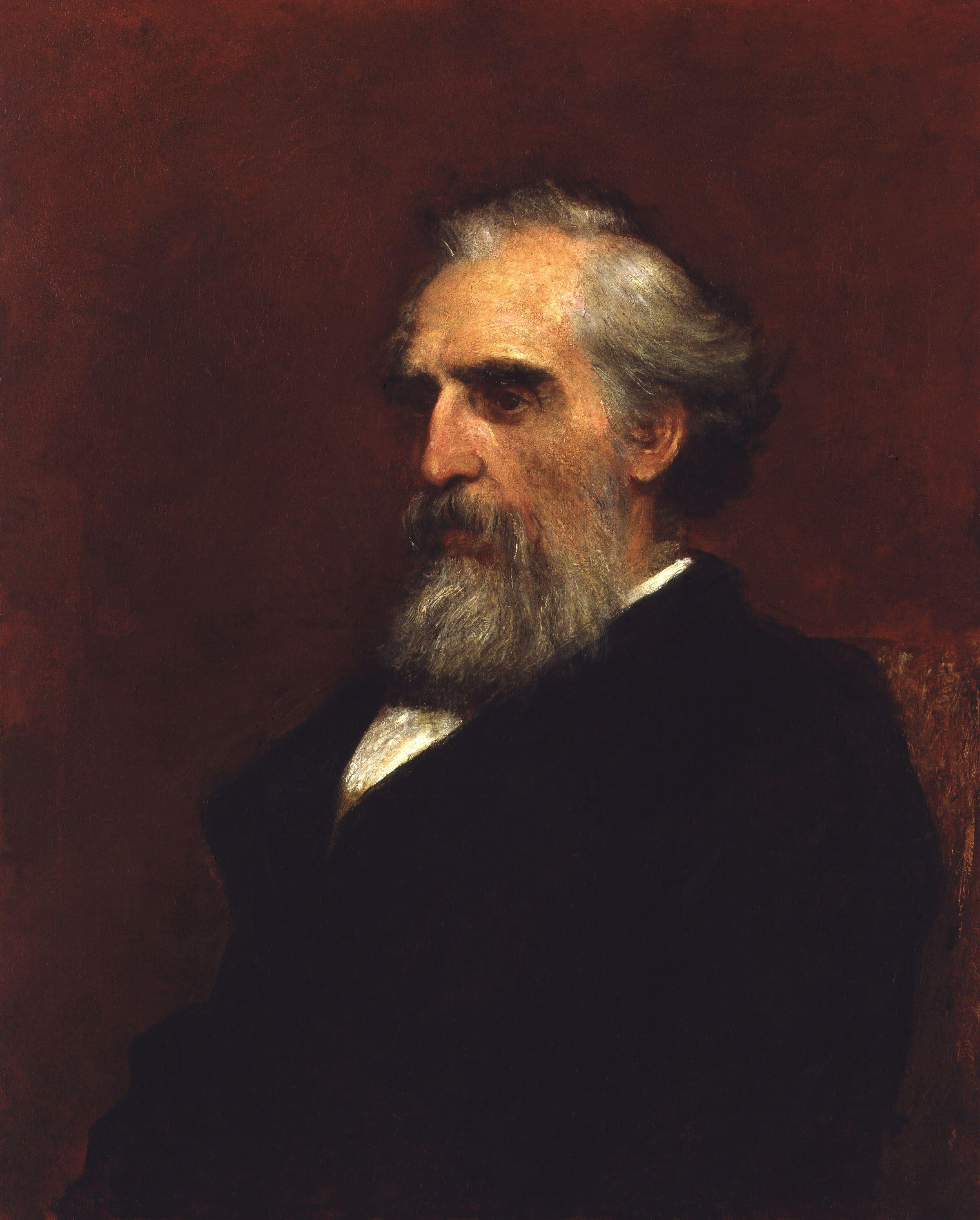 John Passmore Edwards, by George Frederic Watts (died 1904), given to the National Portrait Gallery, London in 1955. All images in this batch have been confirmed as author died before 1939 according to the official death date listed by the NPG.